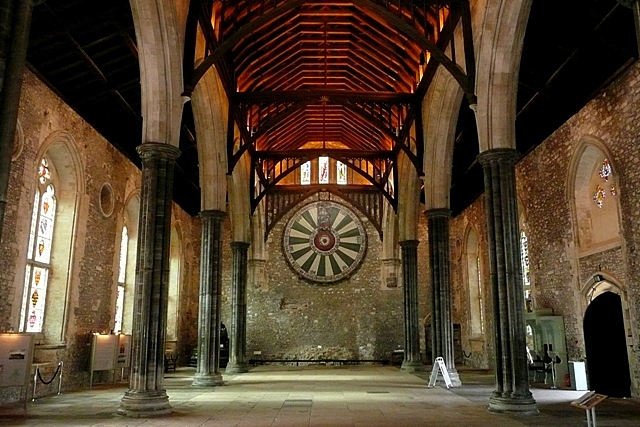 The Great Hall, Winchester Castle. This is Henry 3rd's Great Hall, the only significant remains of Winchester Castle, built in 1222. The room is a double cube, measuring 110 feet long by 55 feet wide by 55 feet tall. The roof was reconstructed as seen after a fire of about 1305. On the west wall, is the round table, constructed probably in Edward 1st's reign in about 1280, and painted in the early part of Henry 8th's reign in about 1510. For a closer picture see 1540331